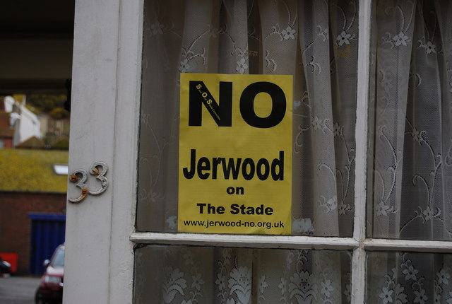 No Jerwood on The Stade. There are many of these posters around the Old Town. There is a proposal to build an Arty Gallery on the Seafront as part of the regeneration of Hastings. Not much local support. But there is some 1191509